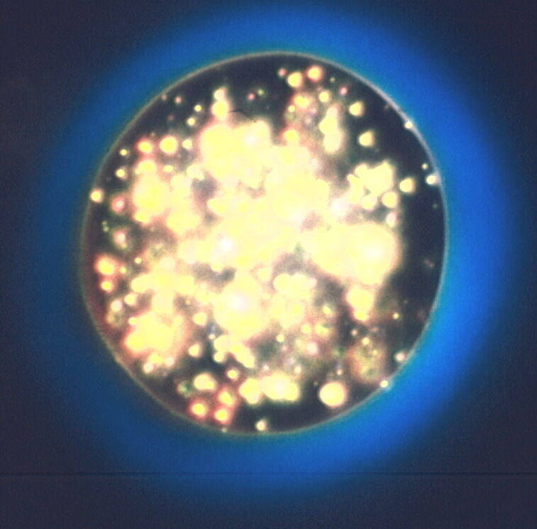 This is the image of a glass sphere mounted in a liquid that matches the refractive index at a wavelength of 589 nanometers viewed with darkfield illumination